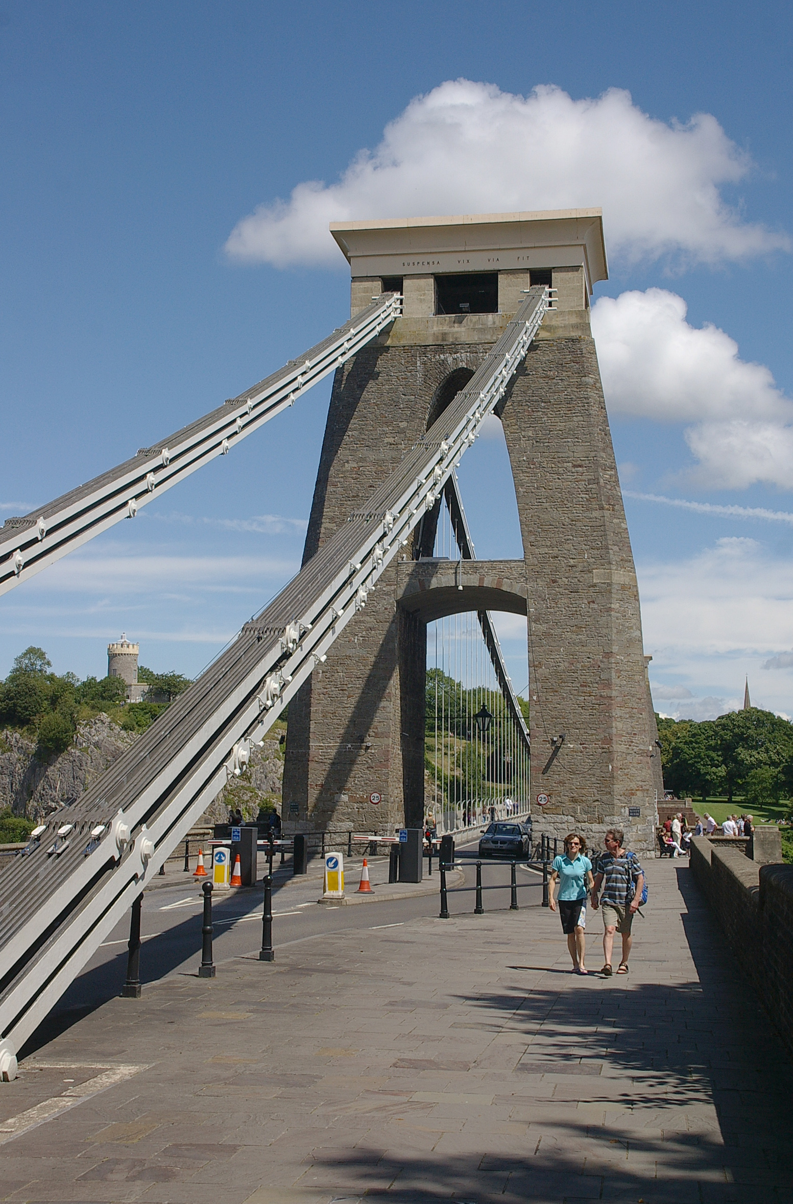 The Clifton Suspension Bridge, view of the west pier.